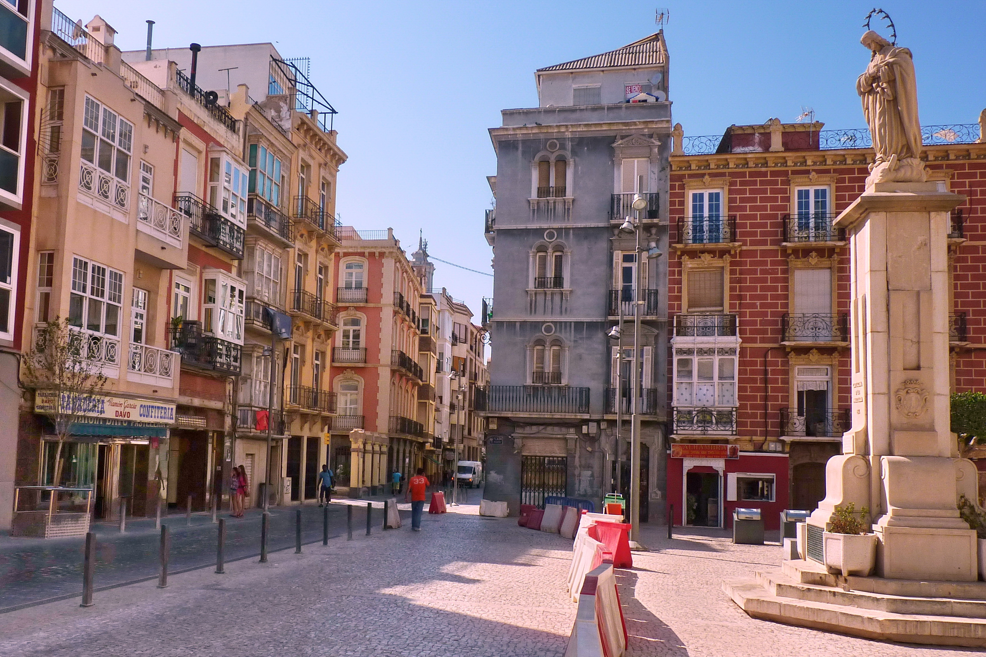 Plaza de Risueño in the Spanish city of Cartagena (Region of Murcia), chaired by the statue of the Immaculate Conception (1954).